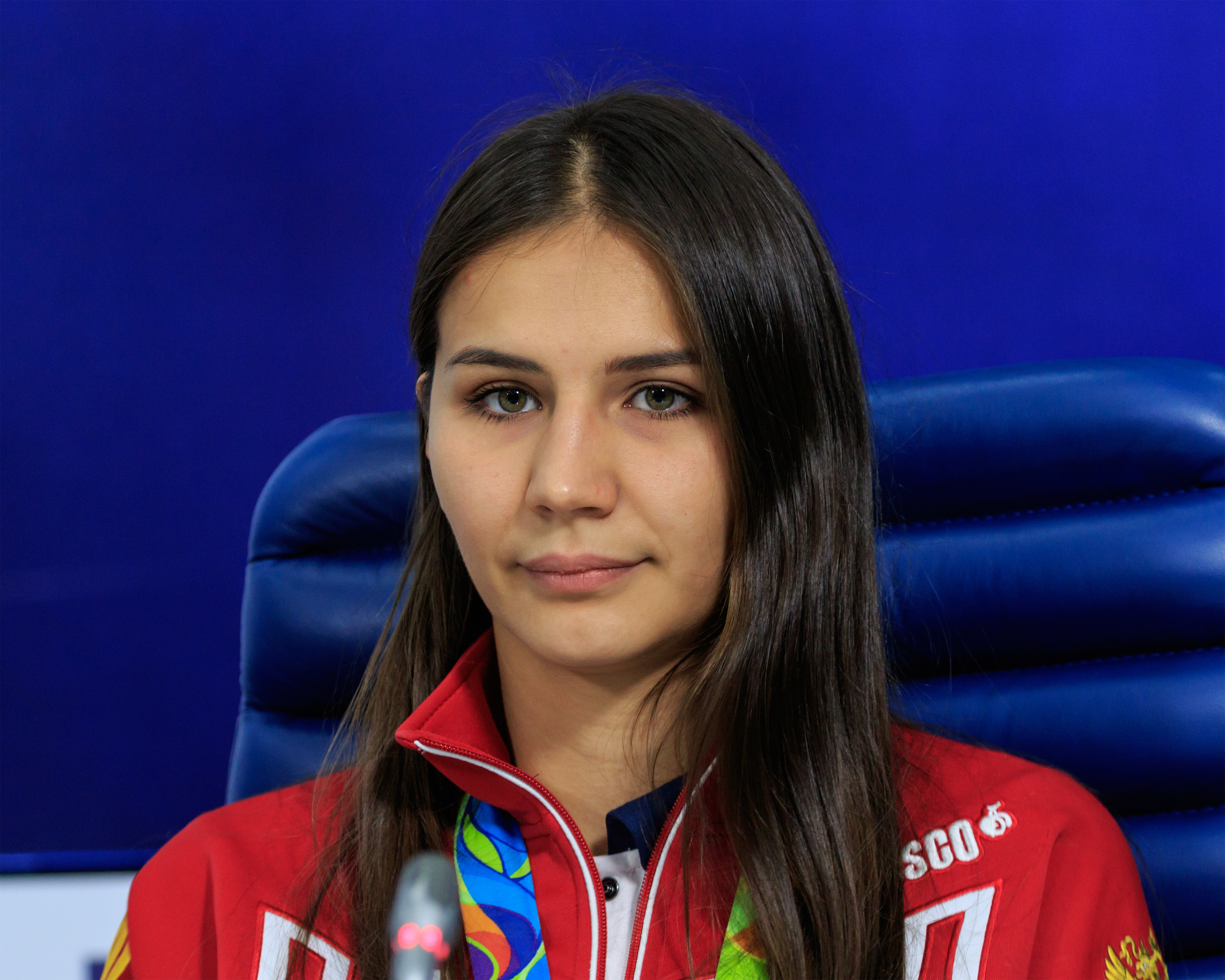 Yekaterina Ilyina (b. 1991) is a handballer from Russia